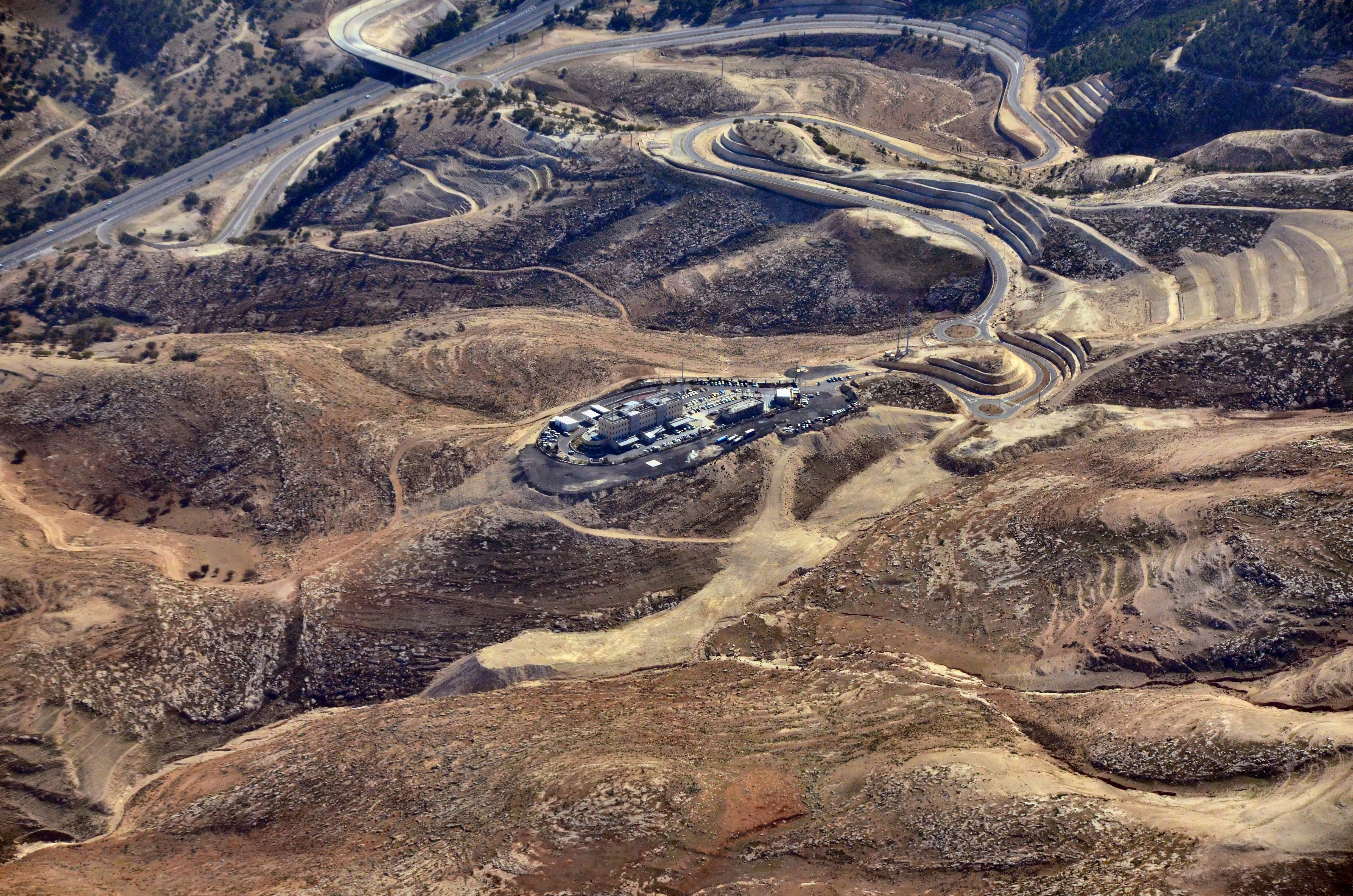 Ma'ale Adumim interchange and Mate Makhoz Shai (police)